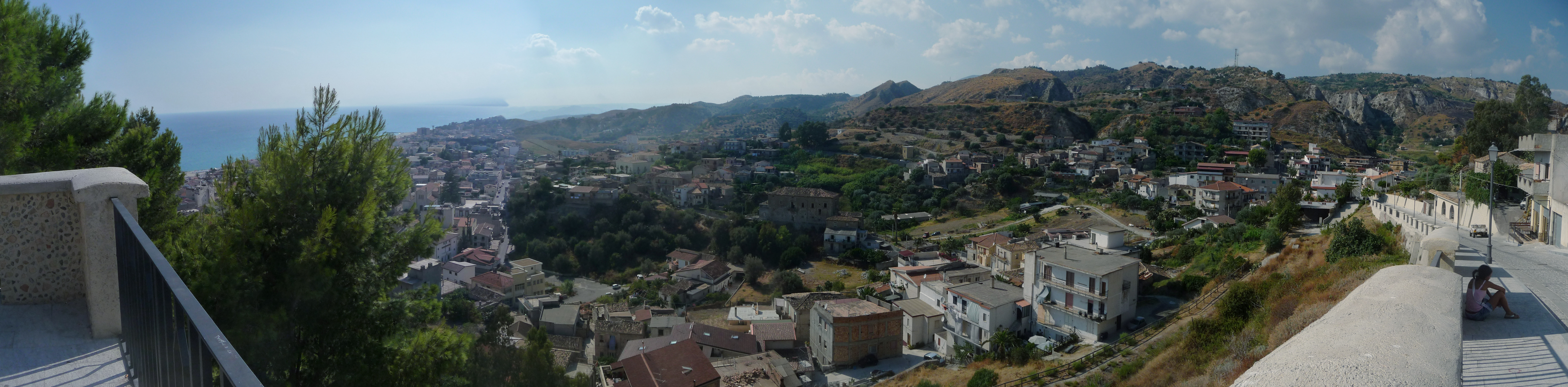 Roccella jonica's Landscape